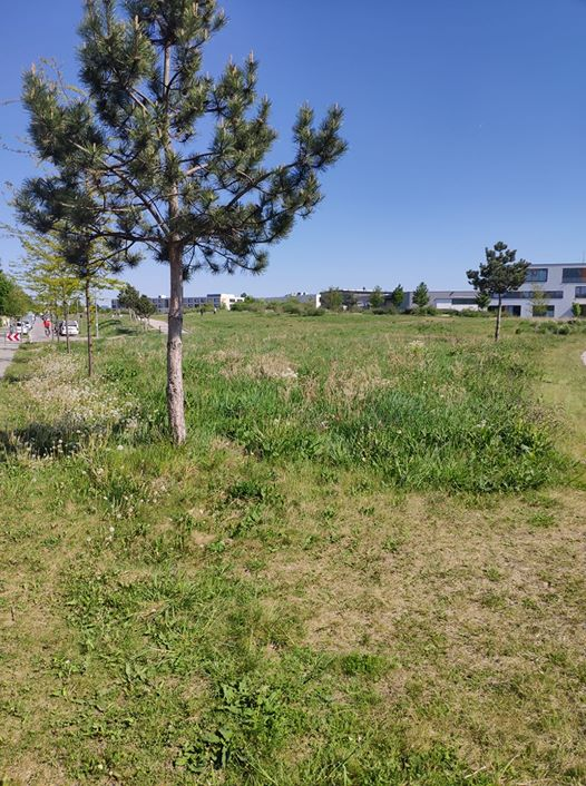 Grünfläche an der Schittgablerstraße, München